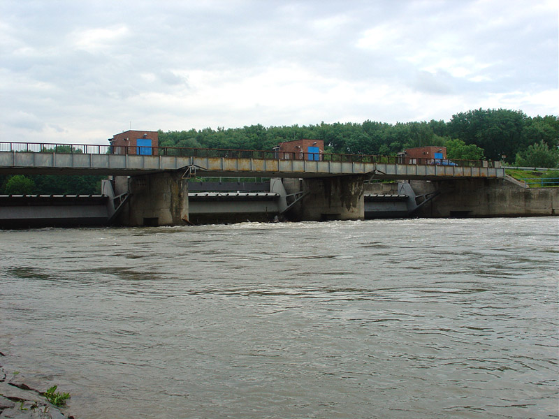 Weir on Morava river in Otrokovice, Czech Republic